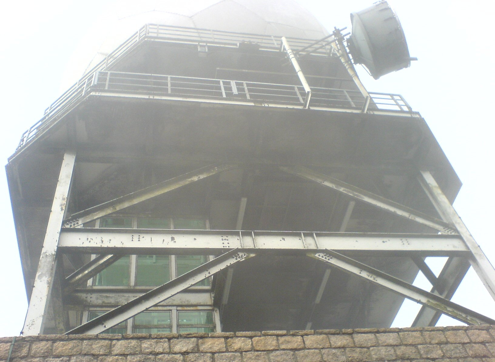 Hong Kong Observatory's radar station at Tai Mo Shan.